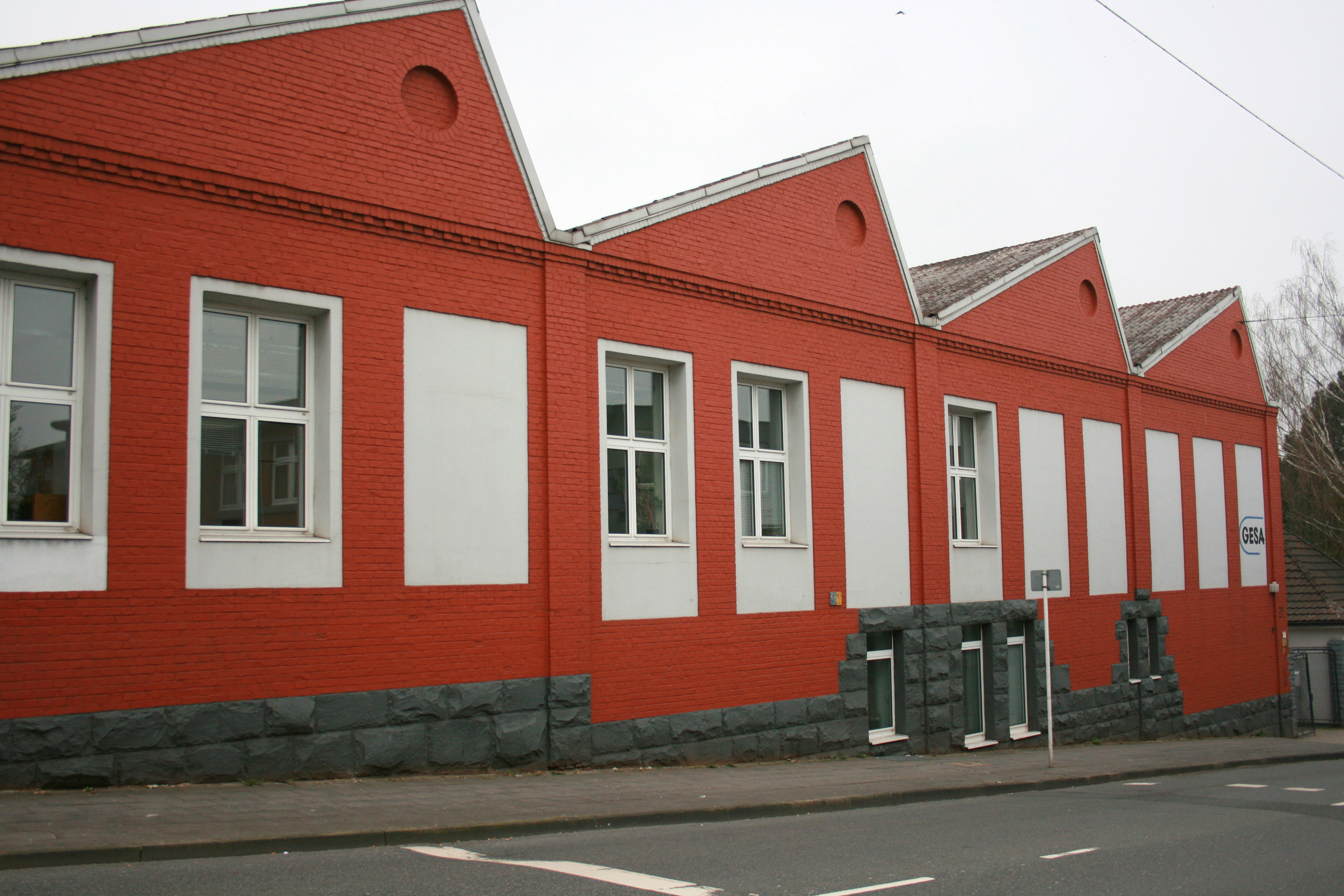 Zipper factory RiRi in Wuppertal, first factory to produce zippers in series